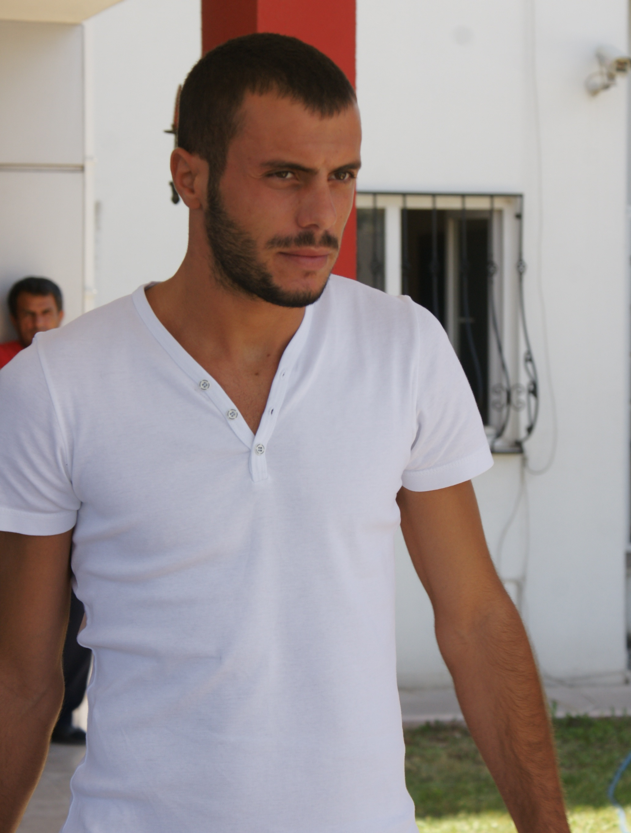 Photo:Murat Özgen